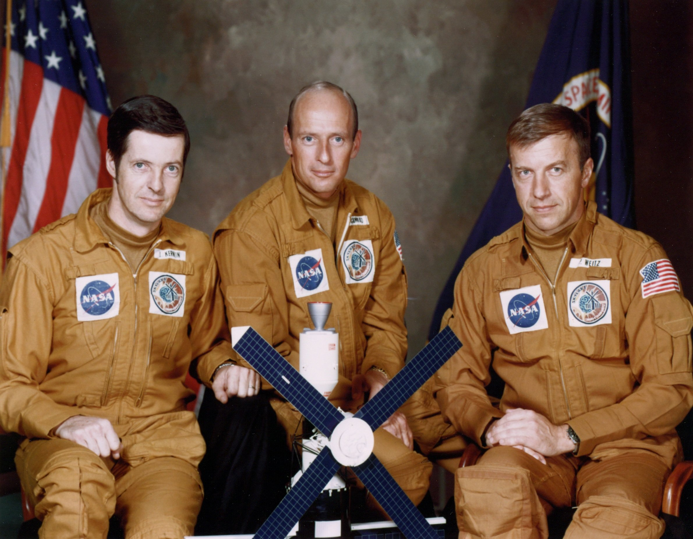 Skylab 2 crew - Joseph Kerwin, Charles Conrad and Paul Weitz